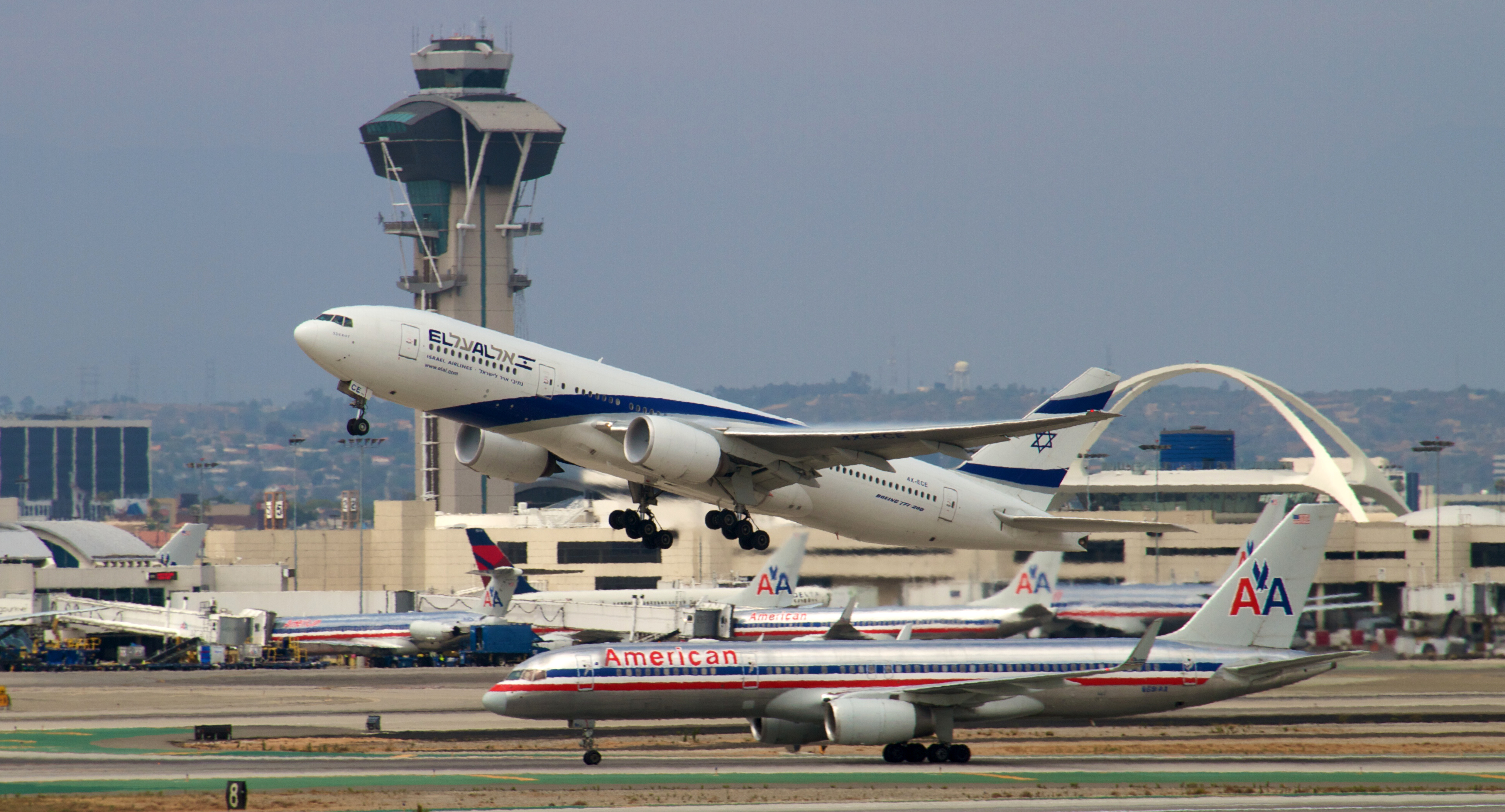 El Al Boeing 777-200ER taking off from Los Angeles International Airport (LAX) bound for a non-stop flight to Ben Gurion International Airport in Tel Aviv, Israel.